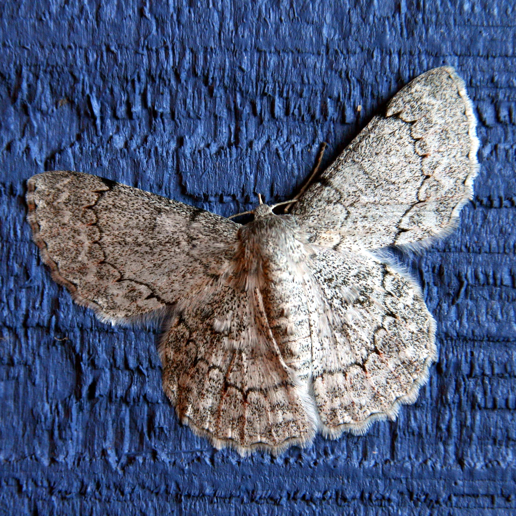 White Moth.